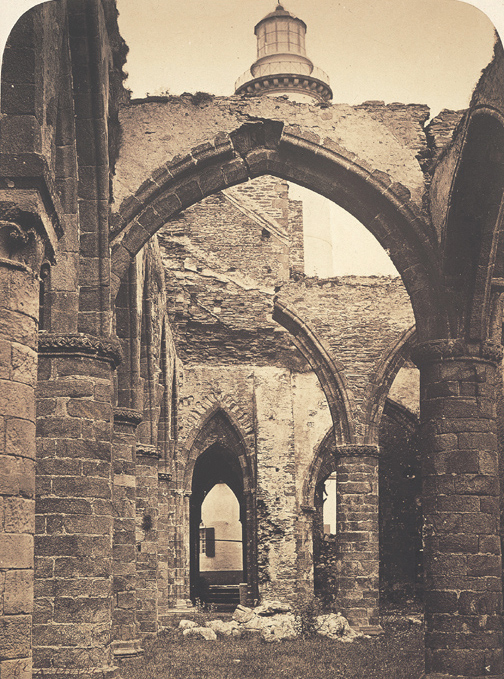 Interior of St Mathieu, photograph by Genevieve_Elisabeth_Disderi included in Brest et ses environs